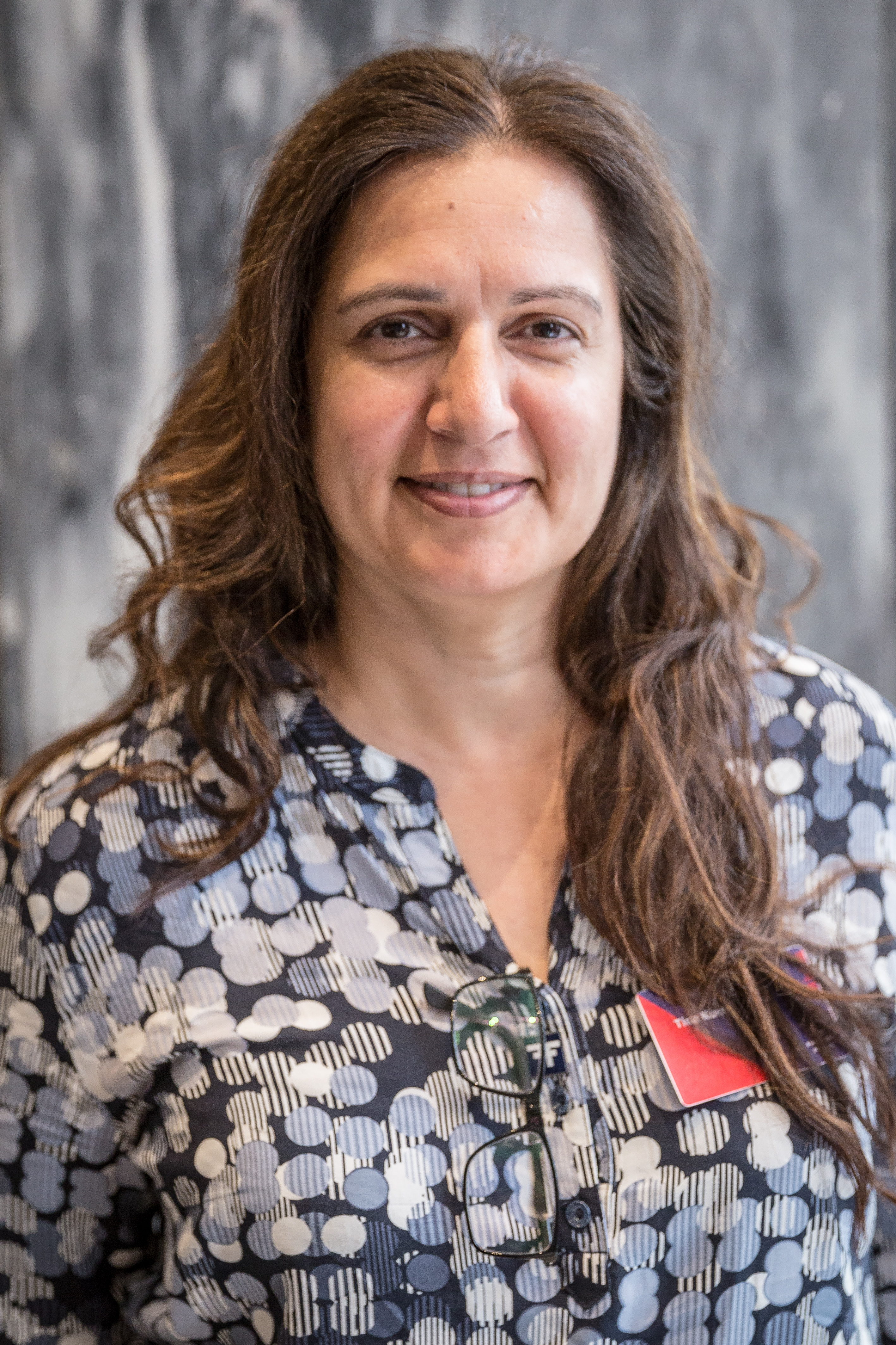 Tina Kornmo at the 2018 Oslo Freedom Forum.